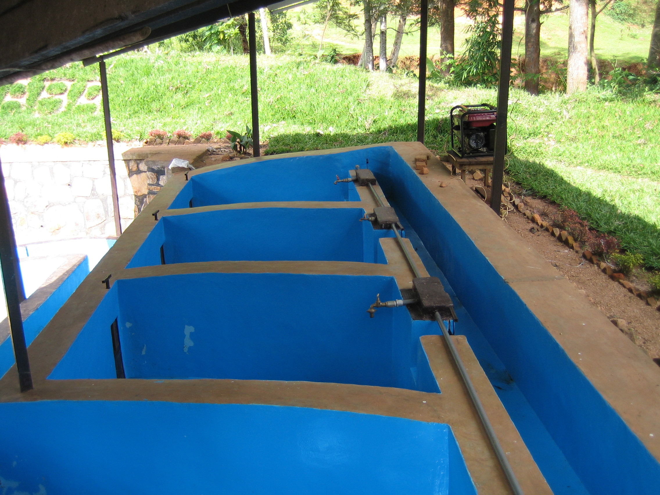 The tanks where Maraba coffee beans are kept after de-skinning and washing. SteveRwanda